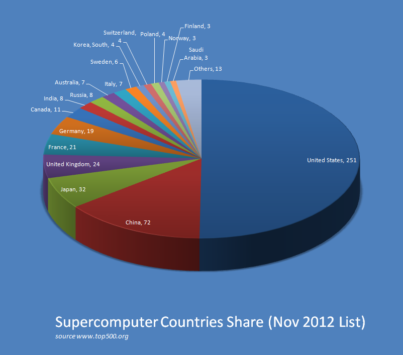 Pie Chart of Supercomputer Countries Share as of Nov 2012